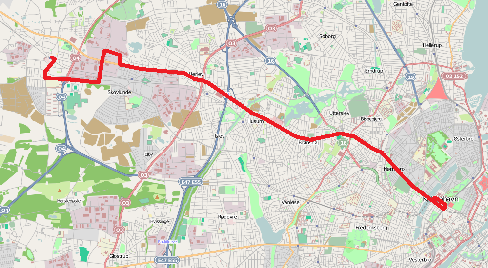 Map of the Copenhagen bus line 350S between Ballerup Station and Nørreport Station as of 13 October 2019. This map may be incomplete, and may contain errors. Don't rely solely on it for navigation.